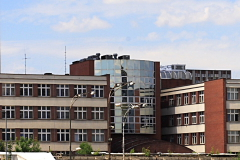 Faculty of Social Sciences. University of Silesia (Katowice, Poland)